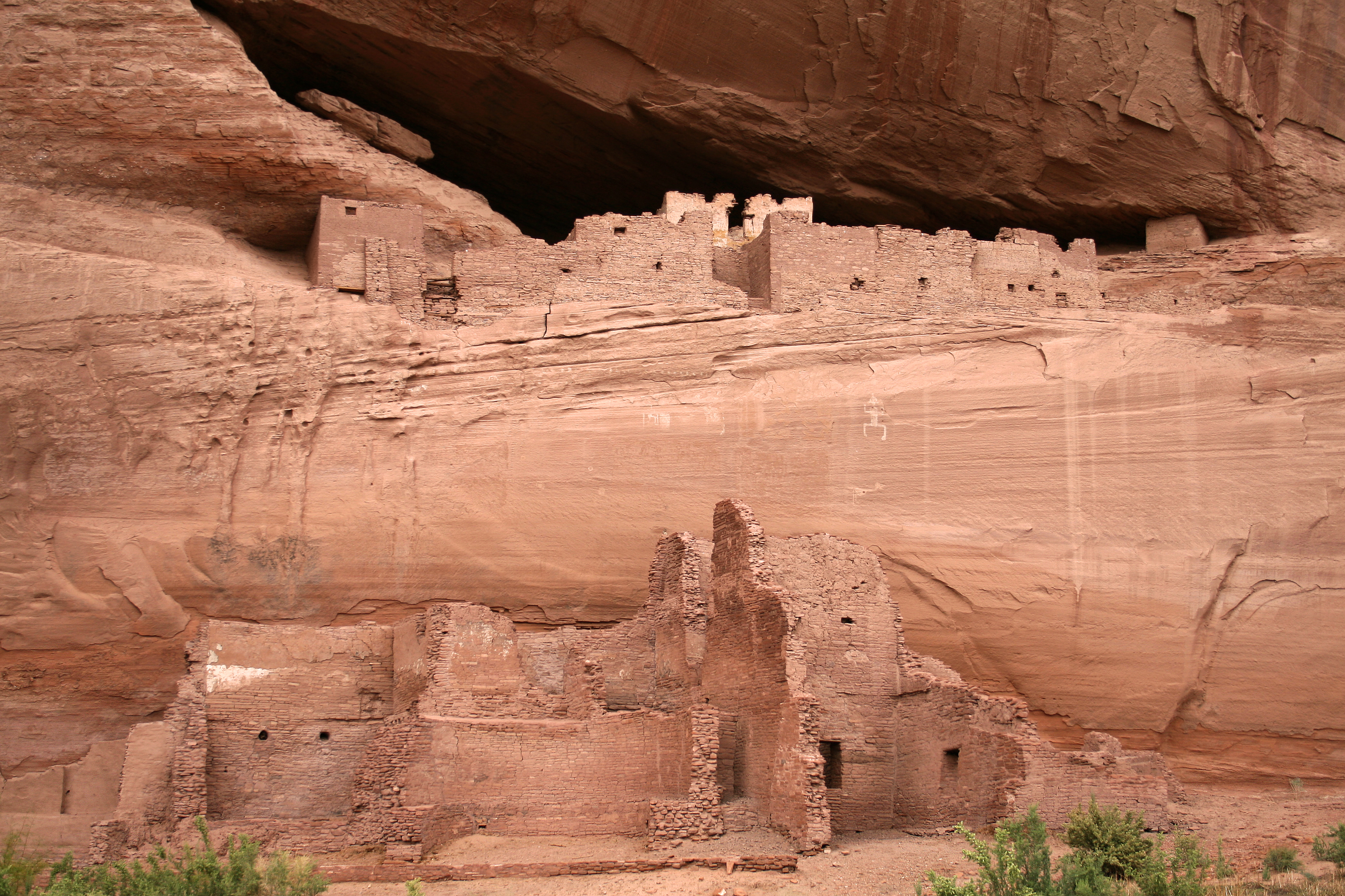 Close view of White House Ruin. Postprocessed by keninglory/ Brocken Inaglory.